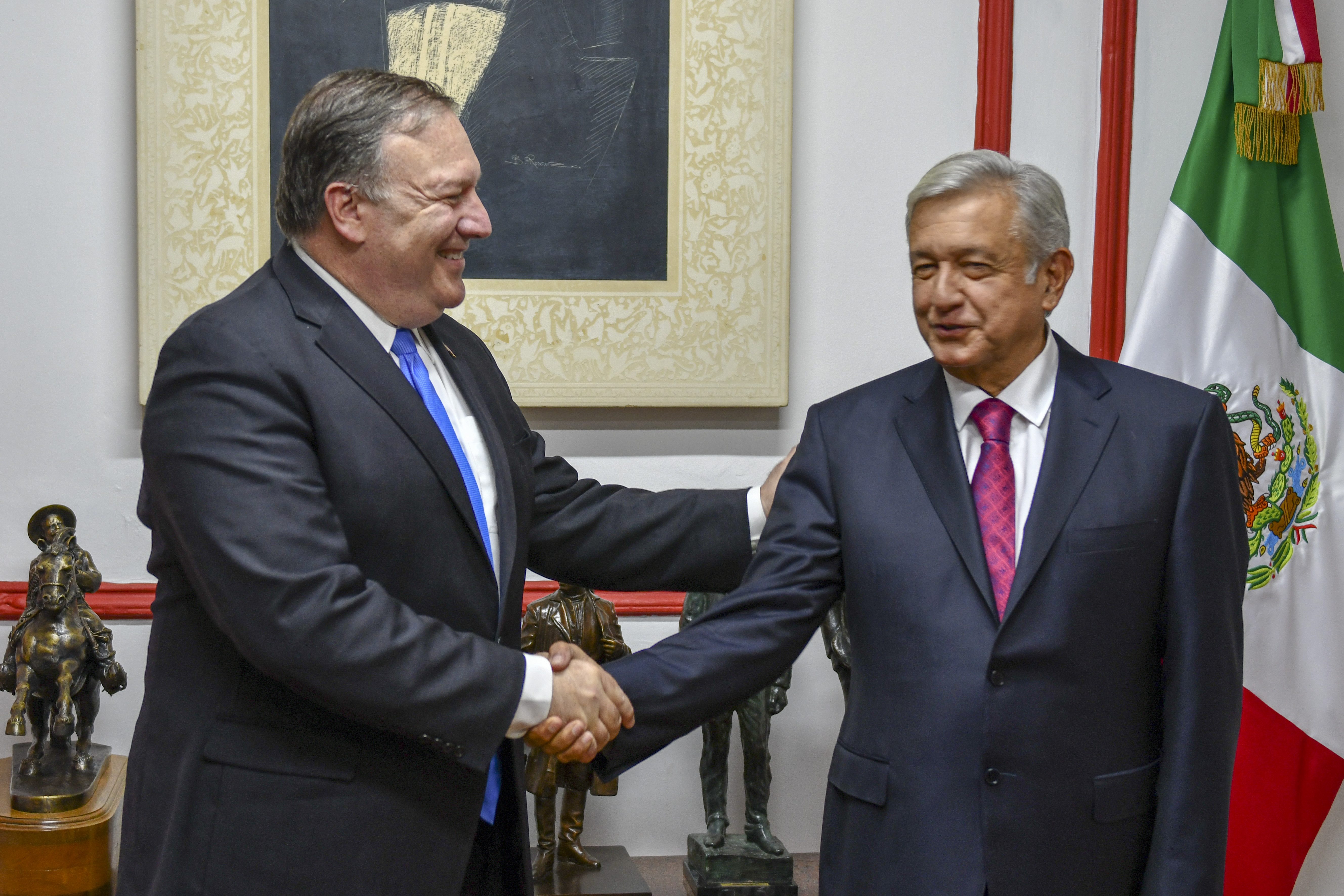 U.S. Secretary of State Michael R. Pompeo meets with Mexican President-elect Andres Manuel Lopez Obrador in Mexico City, Mexico on July 13, 2018. [State Department photo/ Public Domain]